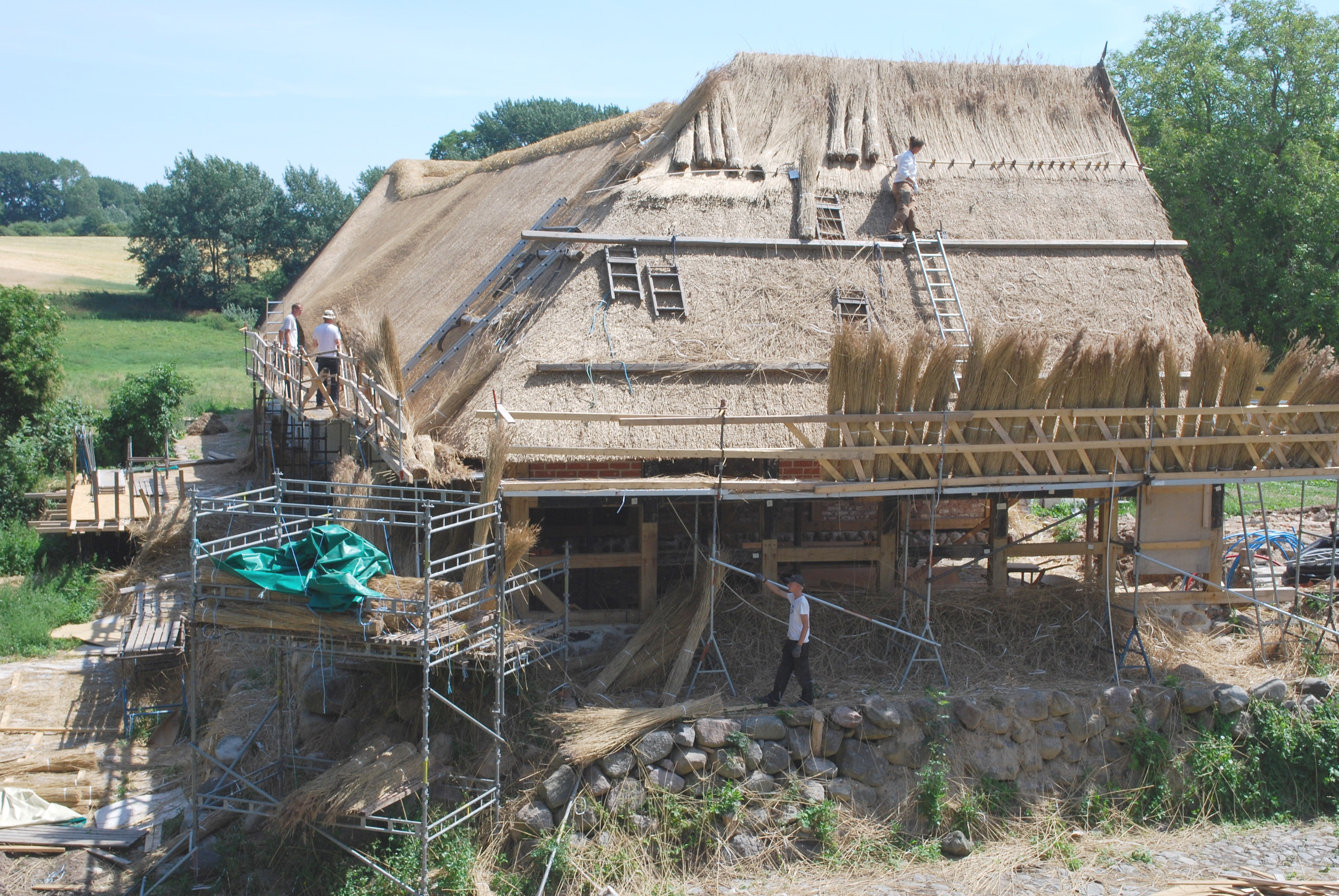 Søbygård, Ærø, Denmark - 2010